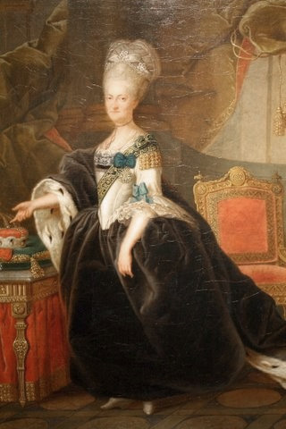 Portrait of Maria Kunigunde of Saxony